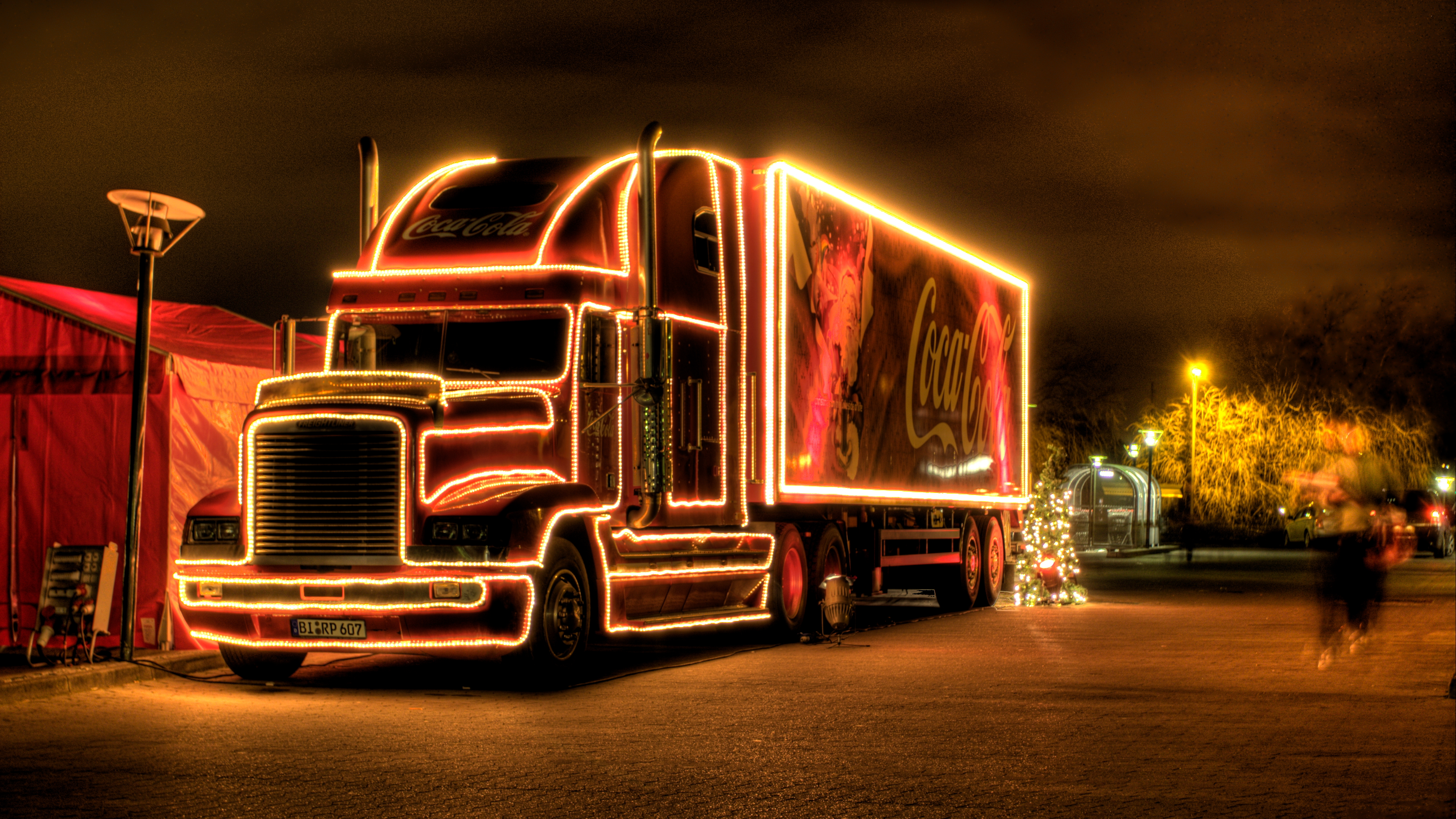 Coke Christmas advertising campaign truck in Middelfart, Denmark.